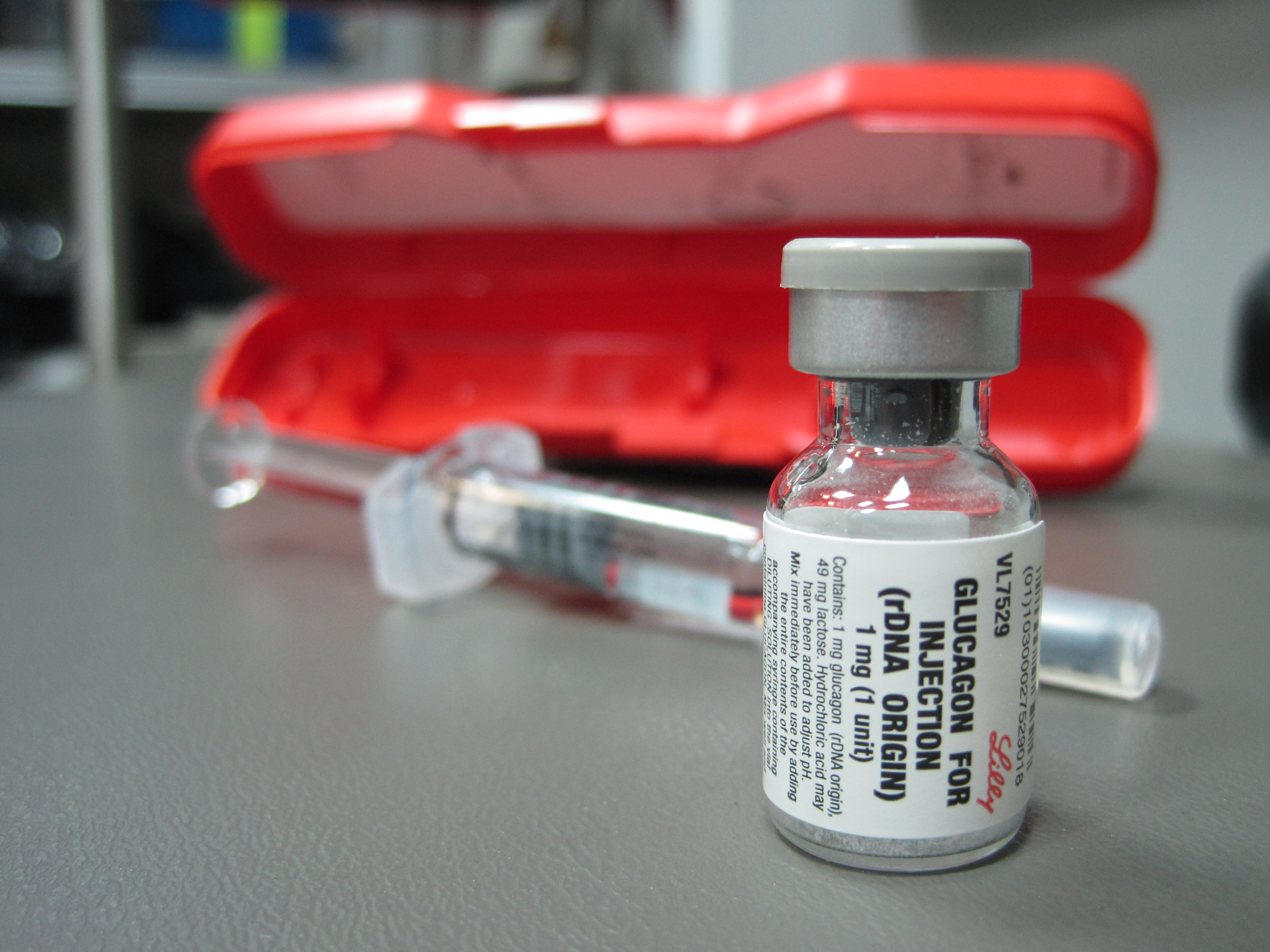 Components of a glucagon preparation. The glucagon contained within the vial must be reconstituted with the contents of syringe prior to intramuscular administration.